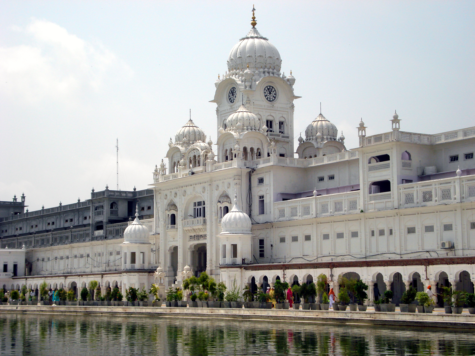 A picture of one of the four main entrances of the Golden Temple. ਪੰਜਾਬੀ: ਹਰਿਮੰਦਰ ਸਾਹਿਬ ਦੇ ਮੁੱਖ ਪਰਵੇਸ਼ ਦੀ ਤਸਵੀਰ ।।